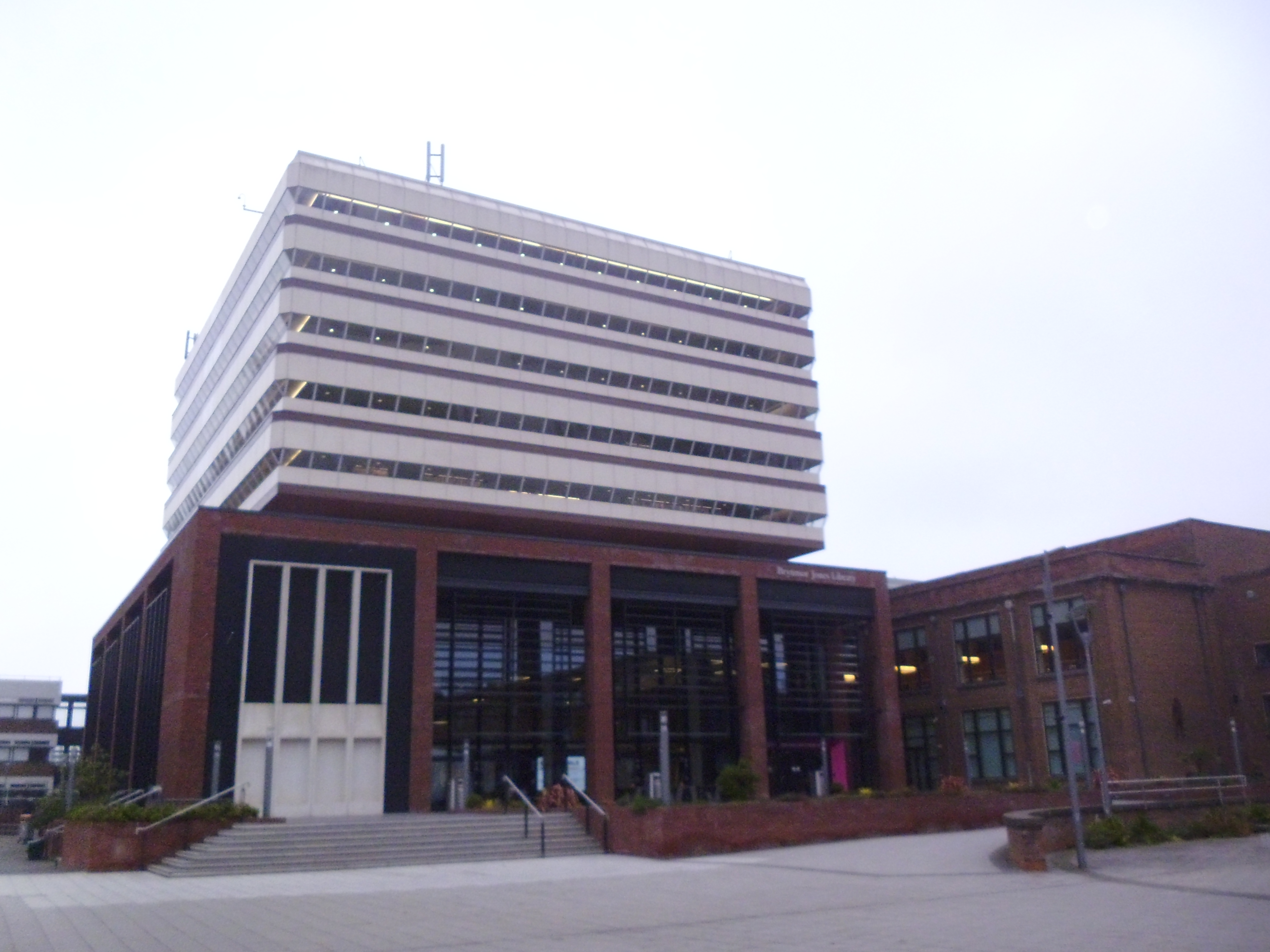 Photograph of the Brynmor Jones Library, taken from the paved area below.